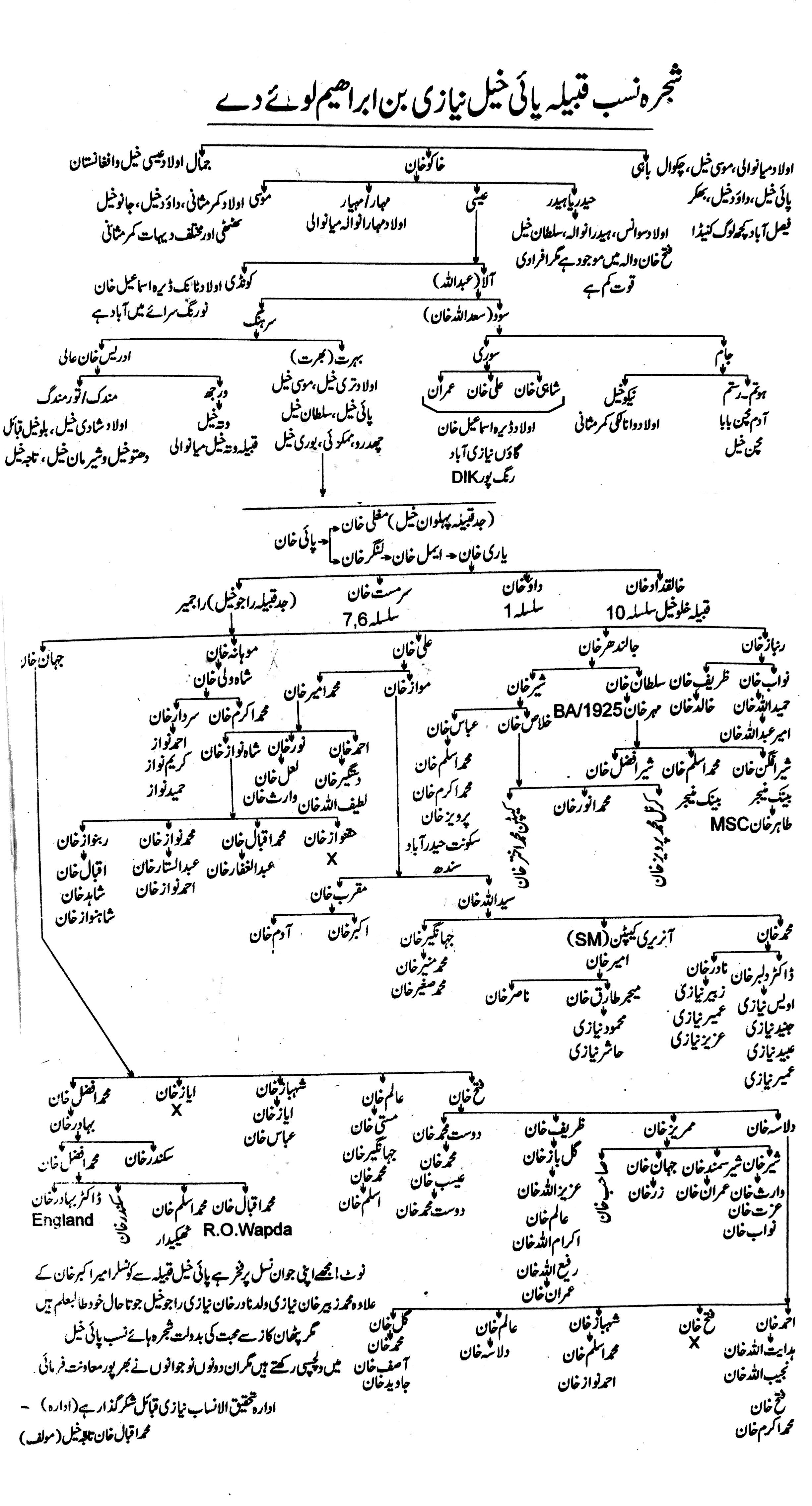 شجرہ نسب قبیلہ پائی خیل نیازی